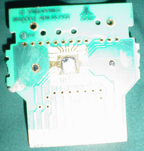 This is a ROM chip from an Atari 2600 game cartridge. It is from a game cartridge I had taken apart in the early 1990's - several years after I stopped using the 2600.